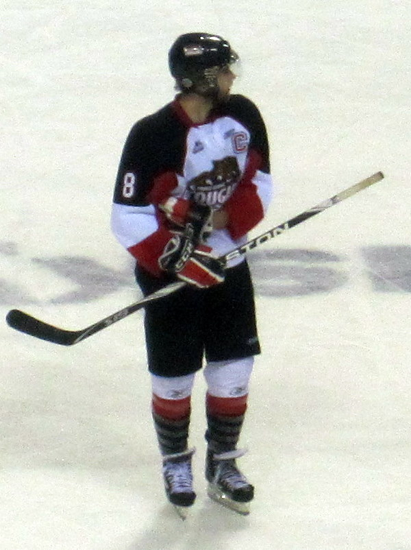 Prince George Coguars captain Brett Connolly during a game against the Vancouver Giants on November 13, 2010.